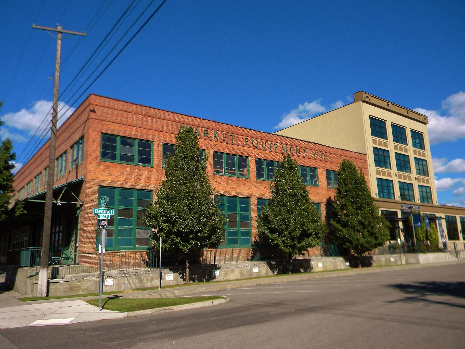 Desmet Avenue Warehouse Historic District Proximity of Gonzaga University has had a major effect on neighborhood revitalization.